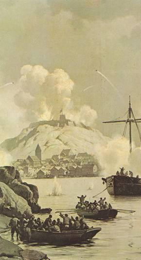 Danish attack on the Swedish fortress "Karlsten", 1719.